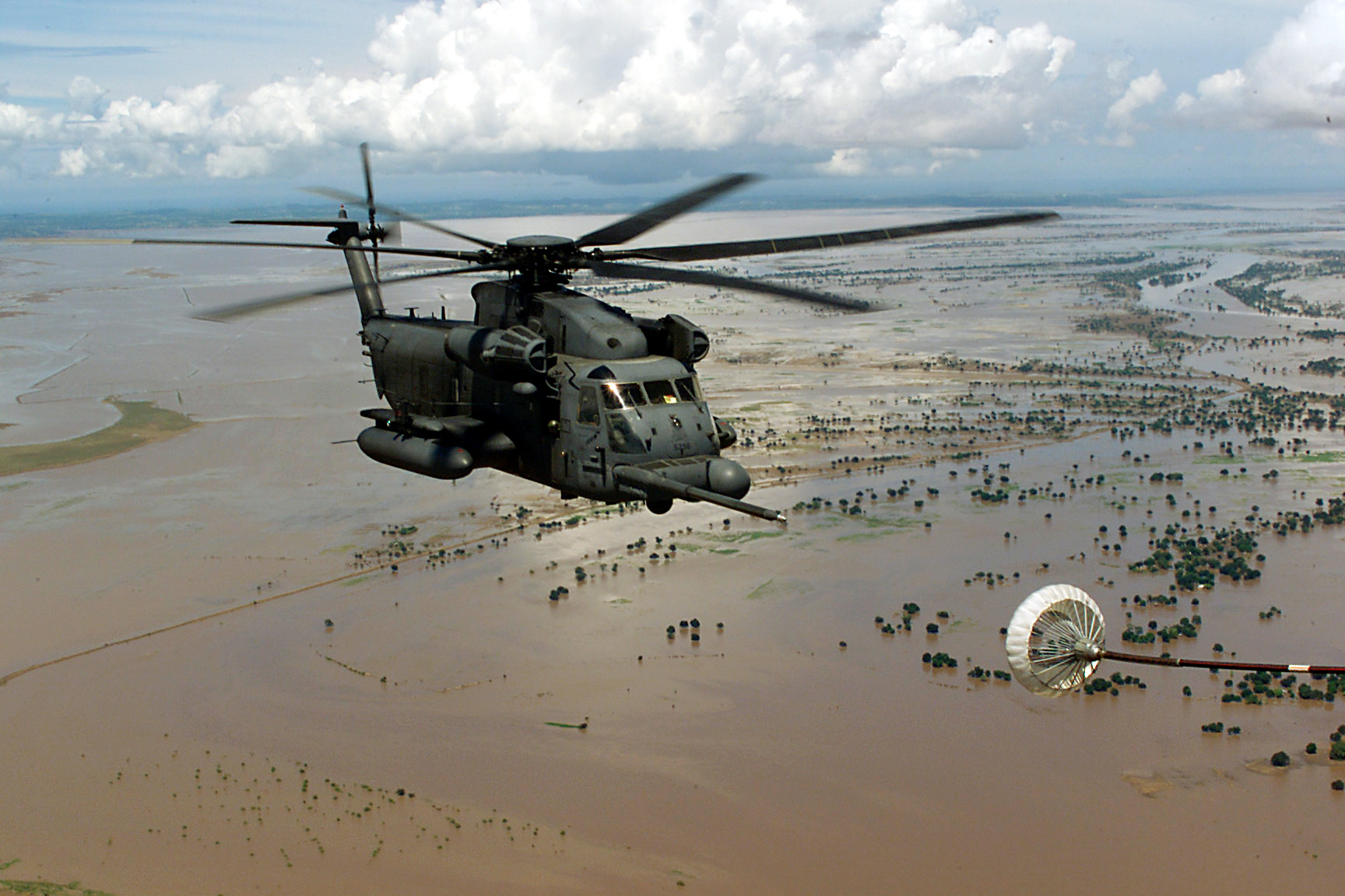 000320-F-5772H-008 An MH-53M Pave Low IV helicopter approaches the refueling basket of an MC-130P Combat Shadow for in-flight refueling as the aircraft fly over flooded Central Mozambique on March 20, 2000, during Operation Atlas Response. Operation Atlas Response is the U.S. military contribution to relief efforts following torrential rains and flooding in southern Mozambique and South Africa. The Pave Low helicopter is deployed for the operation from the 21st Special Operations Squadron and the Combat Shadow is deployed from the 67th Special Operations Squadron, both of RAF Mildenhall, England. DoD photo by Tech. Sgt. Cary Humphries, U.S. Air Force. (Released)